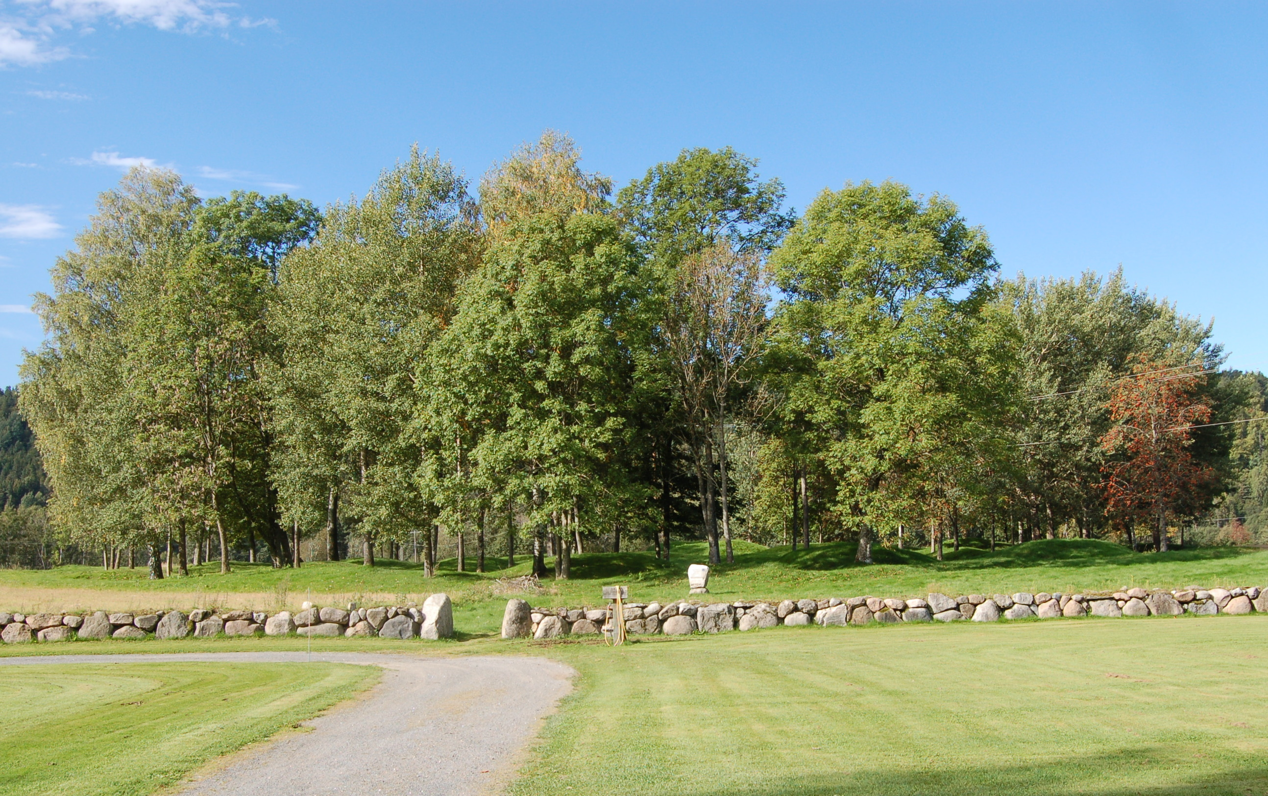 Old graveyard Hedrum Norway Norsk (bokmål): Gravfelt fra jernalderen ved Hedrum kirke, Larvik.